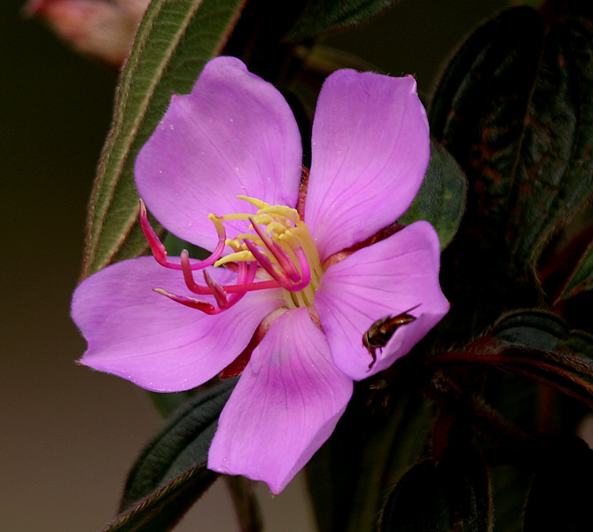 Melastoma normale at Samsing in Darjeeling district of West Bengal, India.